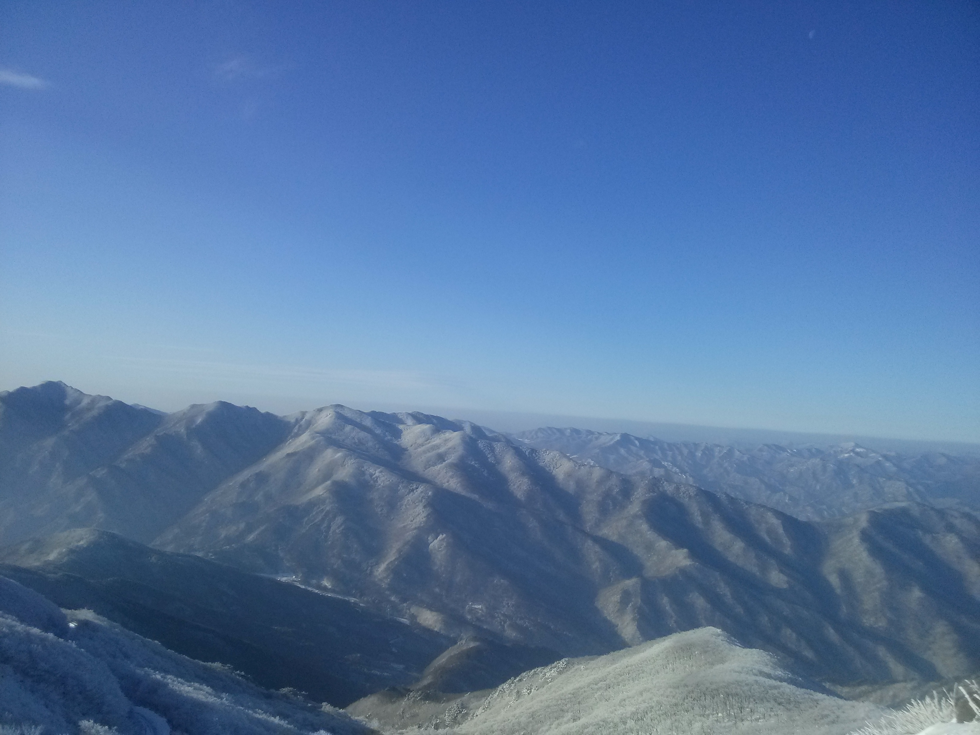 Sobaeksan is a mountain of the Sobaek Mountains, in South Korea. It lies between Danyang County in the province of Chungcheongbuk-do and the city of Yeongju in the province of Gyeongsangbuk-do.